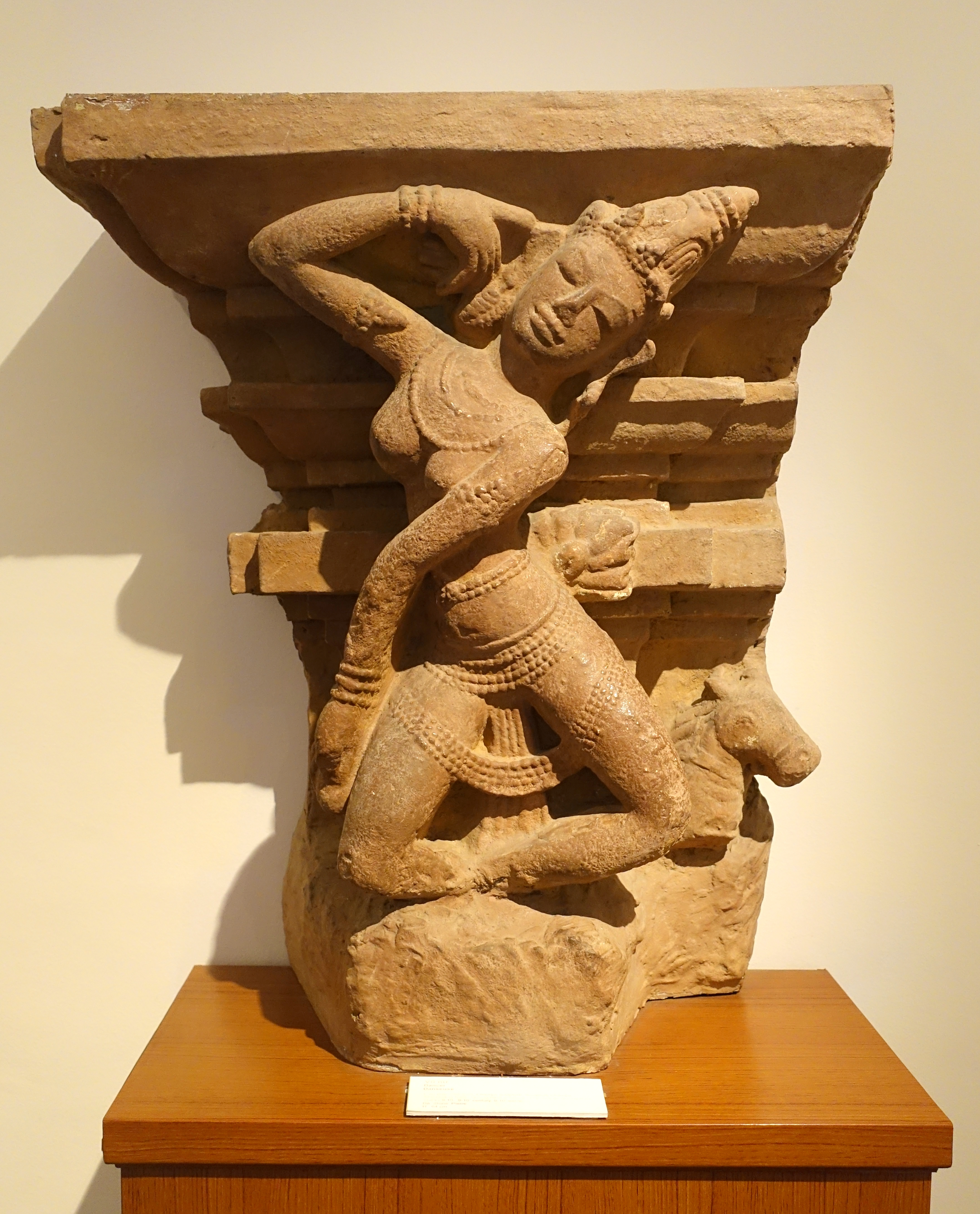 Exhibit in the Vietnam National Museum of Fine Arts - Hanoi, Vietnam. This artwork is old enough so that it is in the public domain.